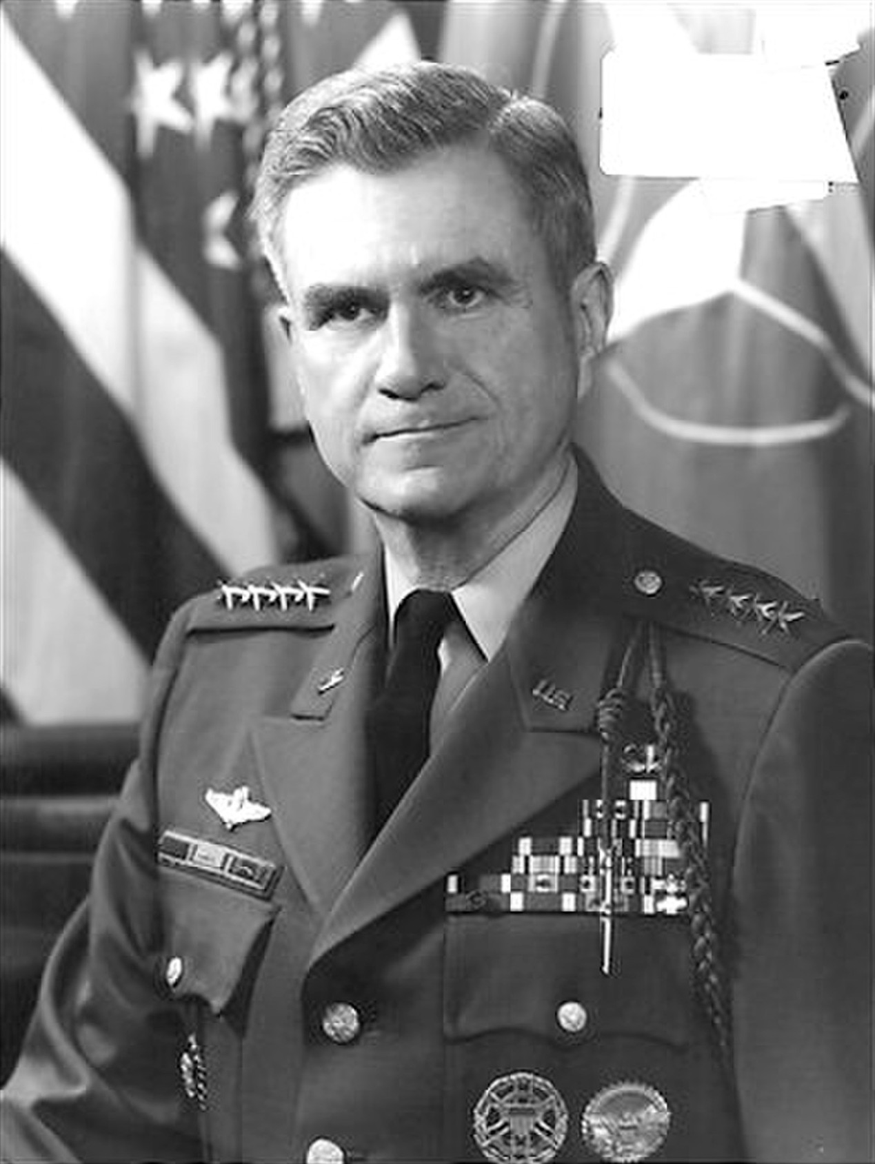 General William A. Knowlton. Official U.S. Army photo, ineligible for copyright